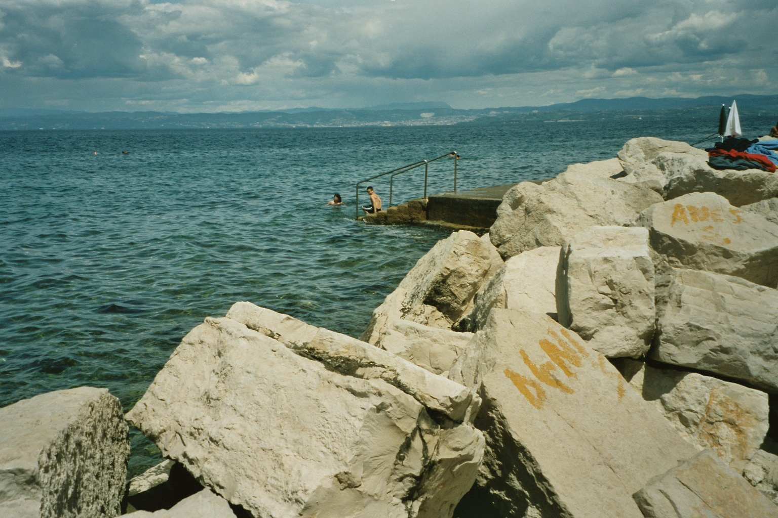 View to the province of Trieste (Italy) from Piran (Slovenia)